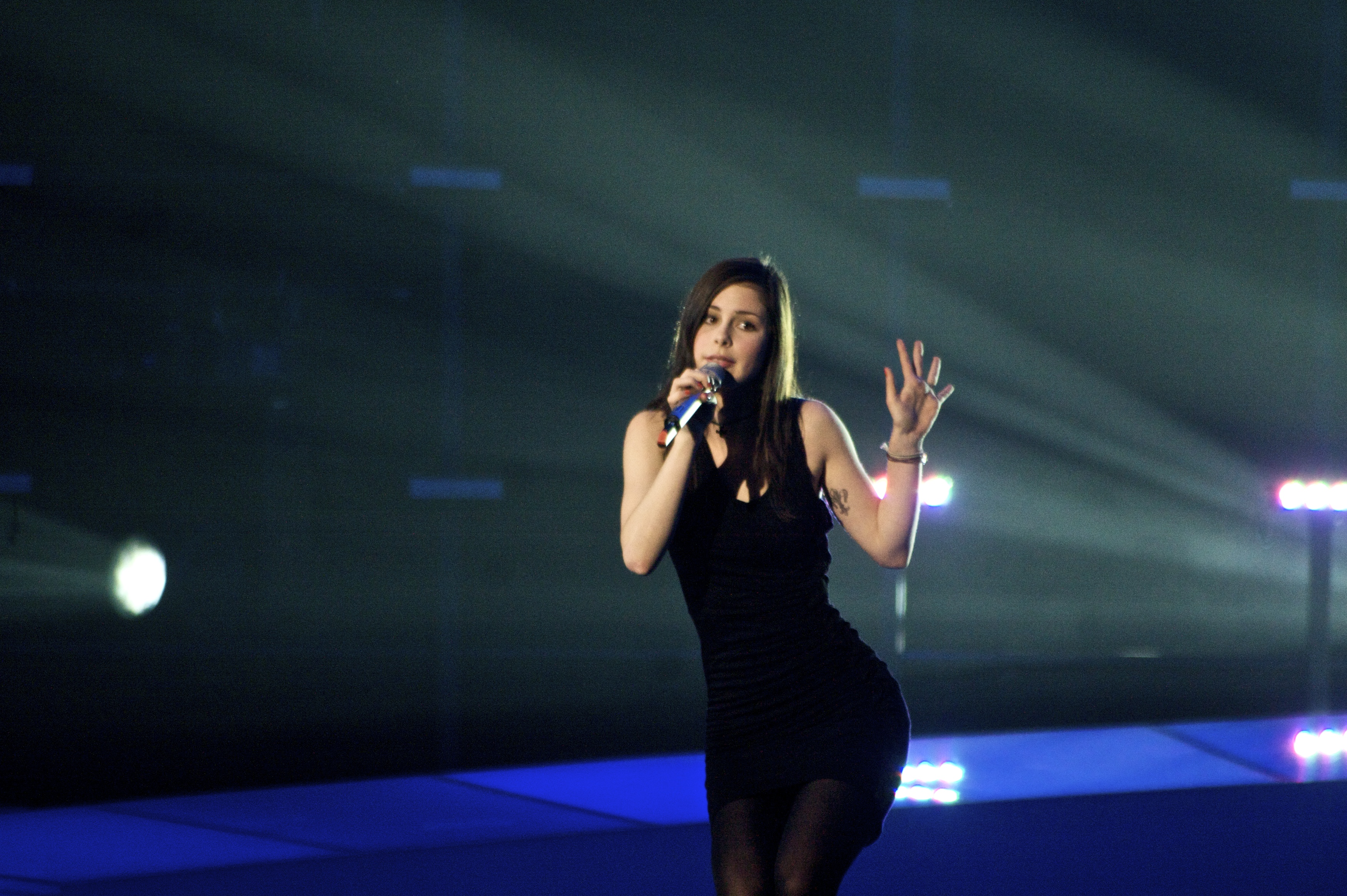 Germany's Eurovision Song Contest participant Lena Meyer-Landrut onstage in the Telenor Arena in Fornebu (during the rehearsals)